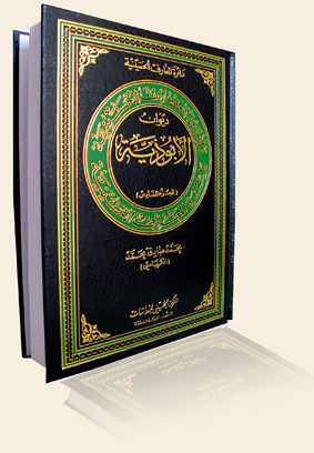 sample of book of Hussaini Encyclopedia